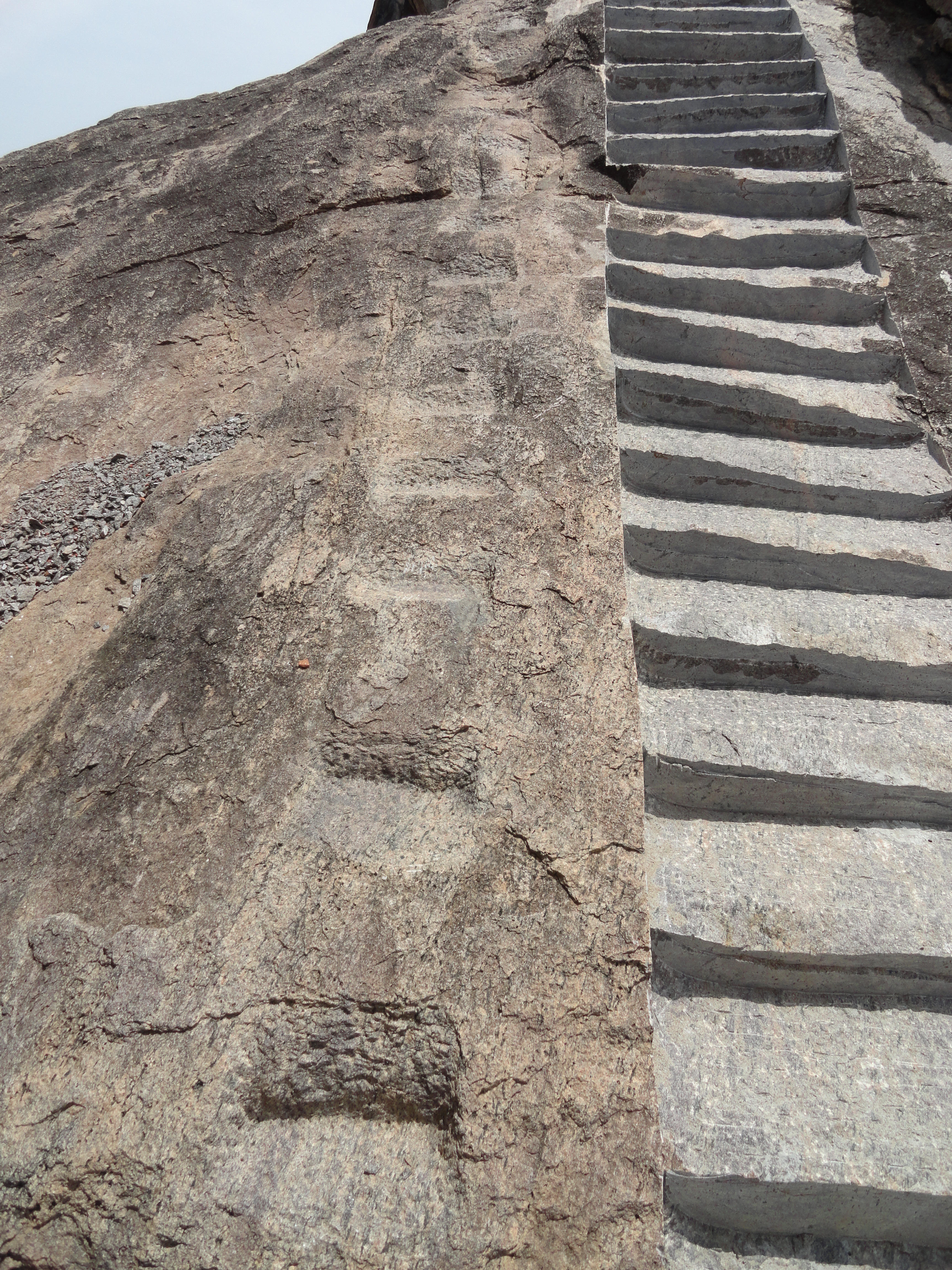 Photograph of old and new steps at thirukoil